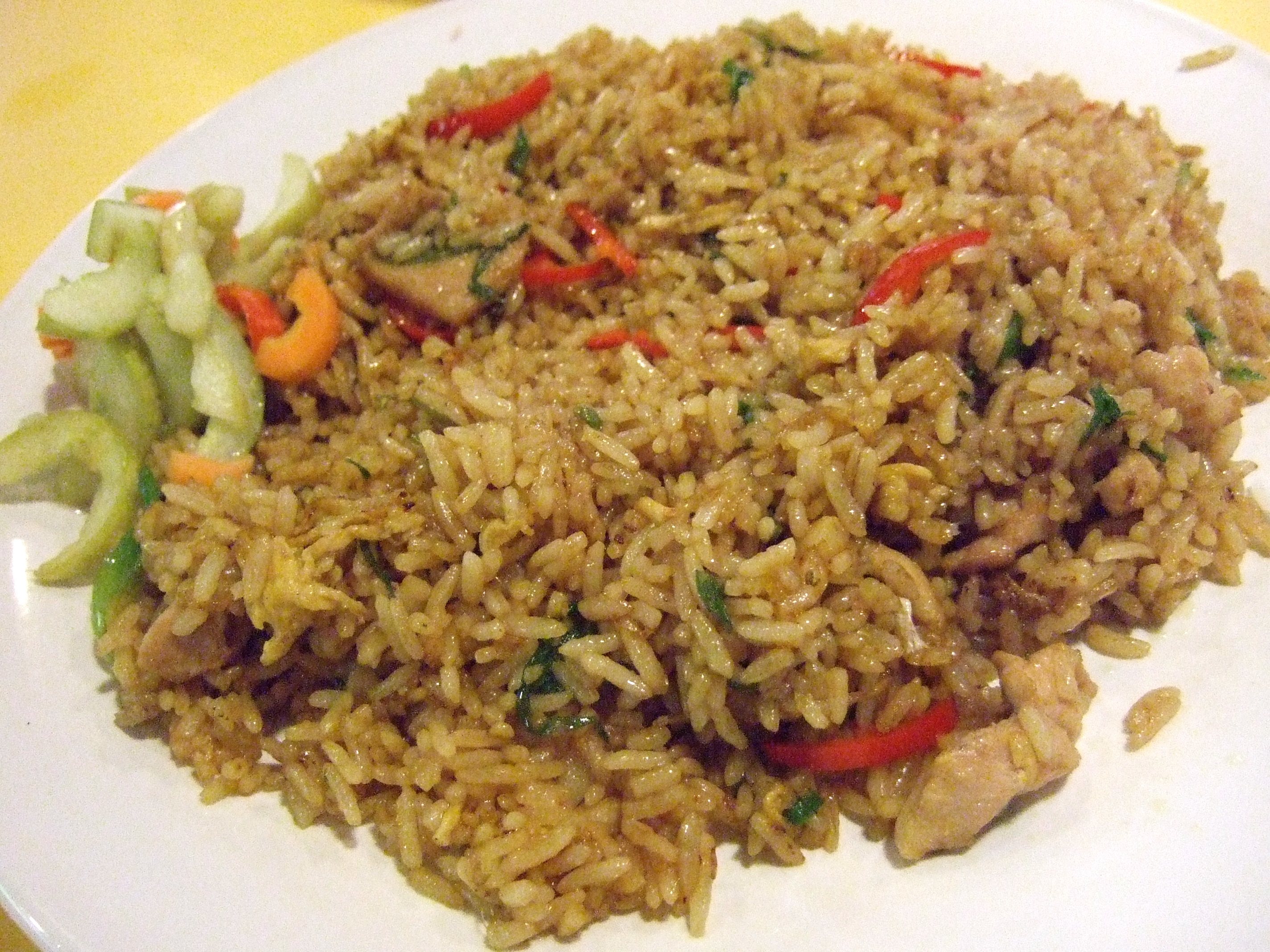 Nasi goreng, Jakarta, Indonesia